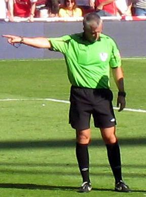 English football (soccer) referee Chris Foy